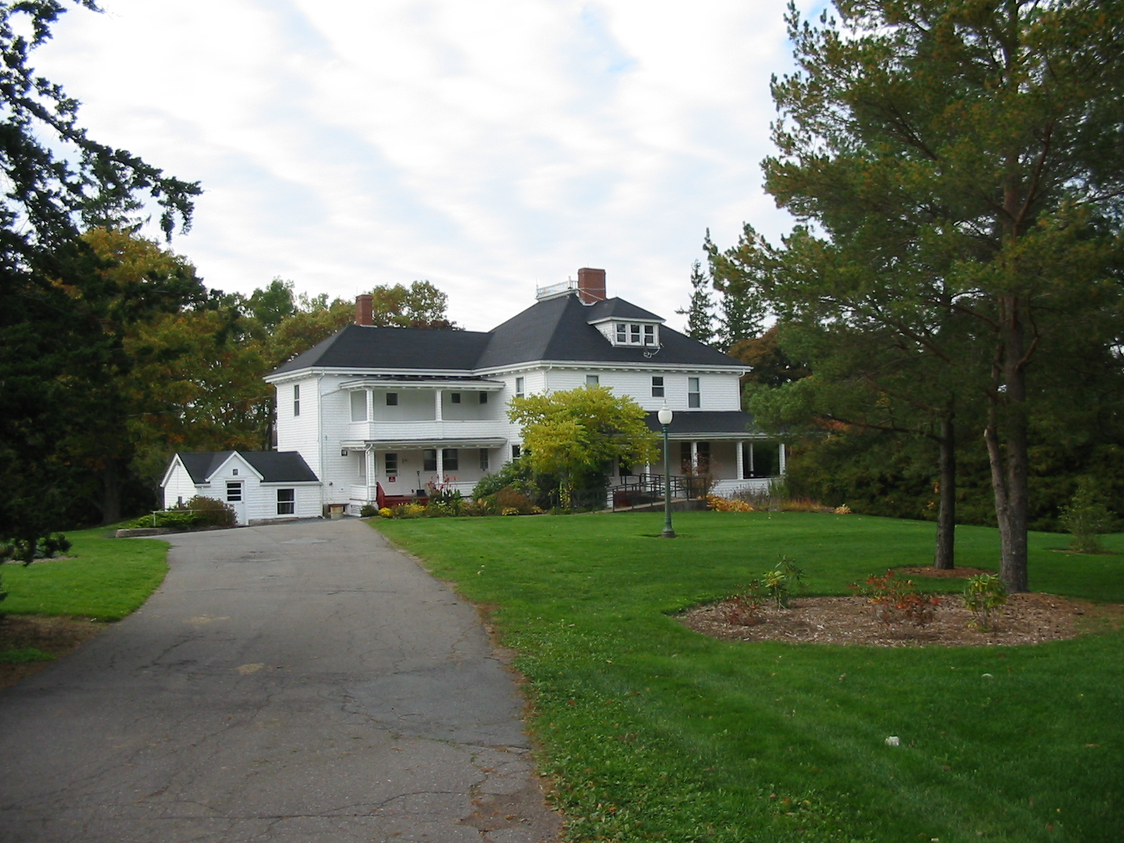 Blair House Museum, Kentville, Nova Scotia, Canada